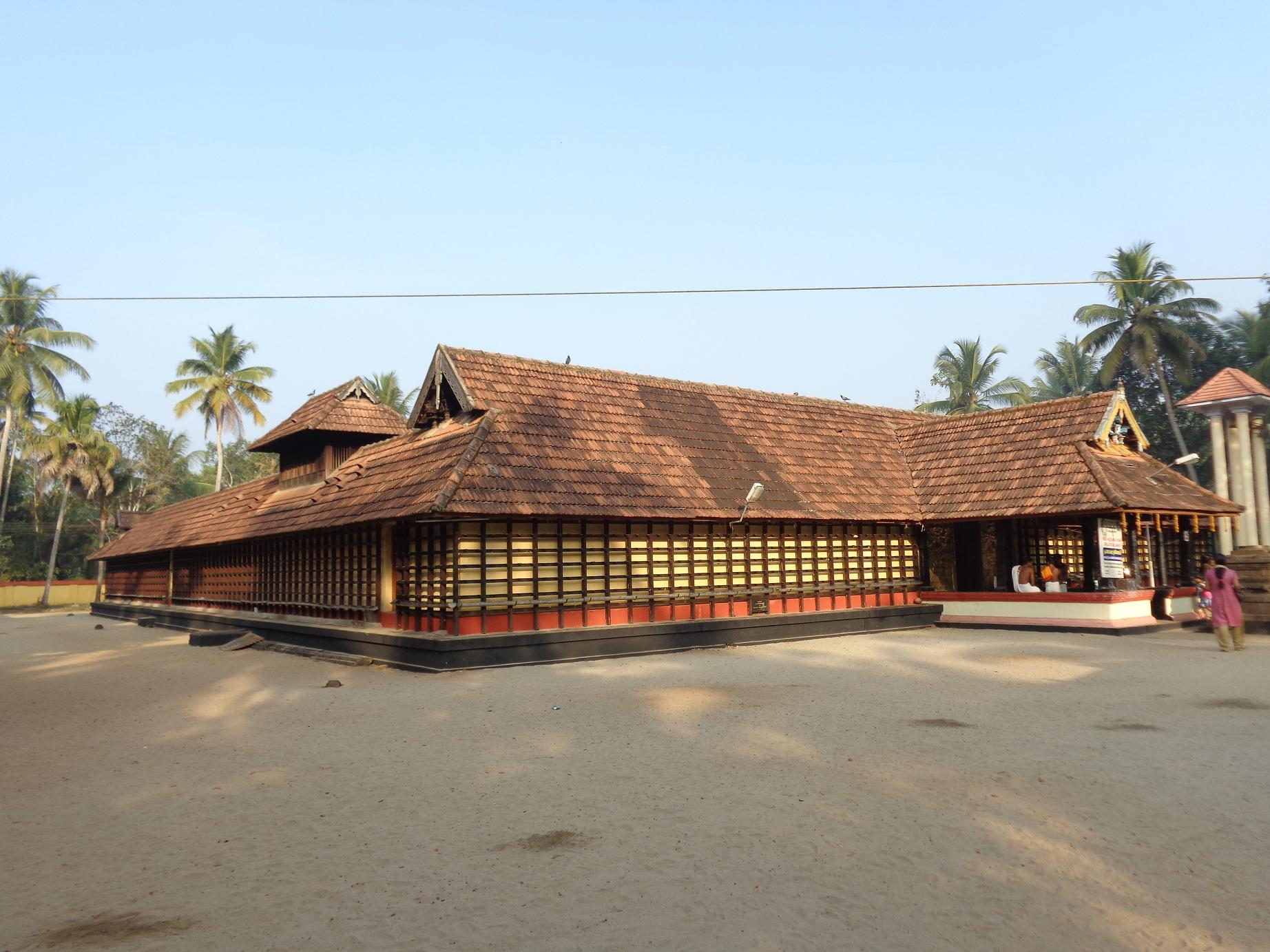 kannamangalam south mahadeva temple, mavelikara